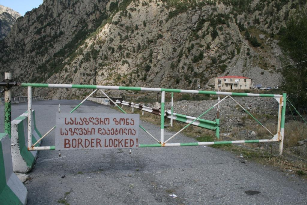 The border between Georgia and Russia has been closed since 2006. The picture shows the Georgian side of the border in the Dariali Gorge.